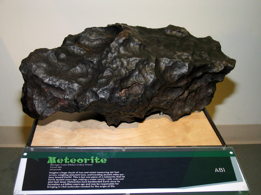 Meteorite on display at the Steinhart museum.